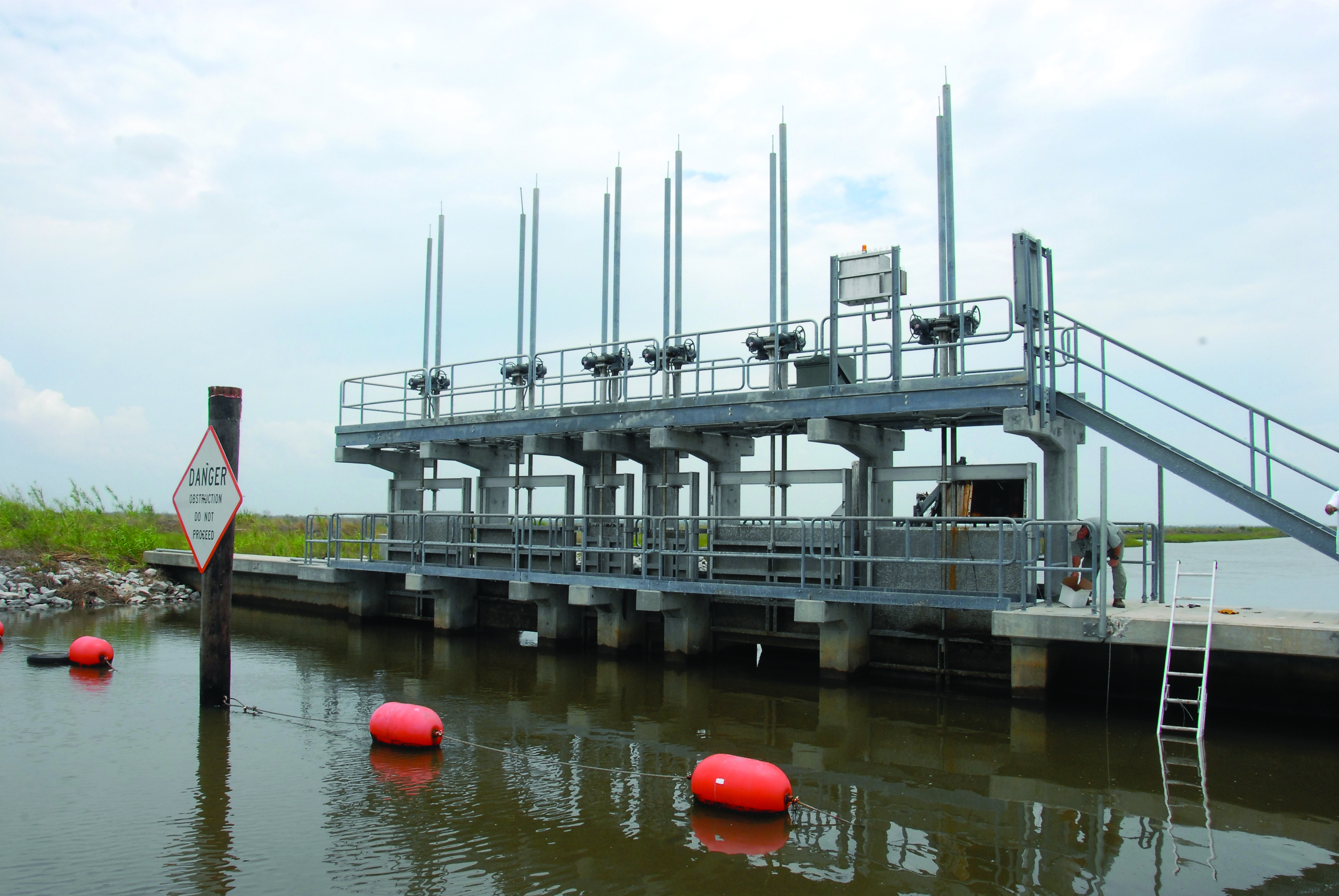 This hydrologic modification weir controls and regulates waterflow.